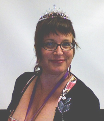 Susie Bright in Tiara, 2007. Cropped and enhanced (using the GIMP) from Image:SusieBrightTiara2007.jpg under the terms of the Creative Commons Attribution ShareAlike 2.0 license.